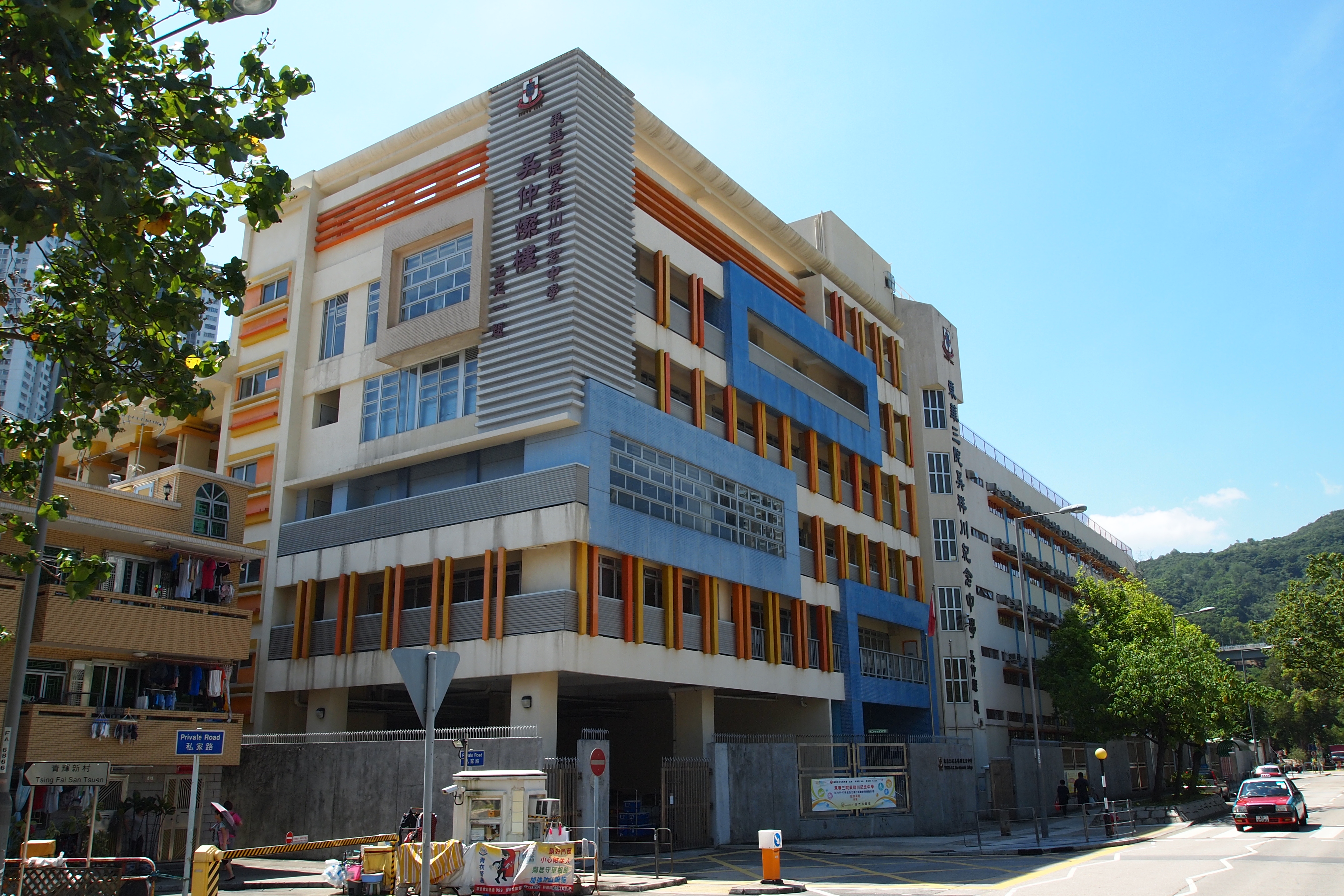 Campus Appearance (1984-2005)